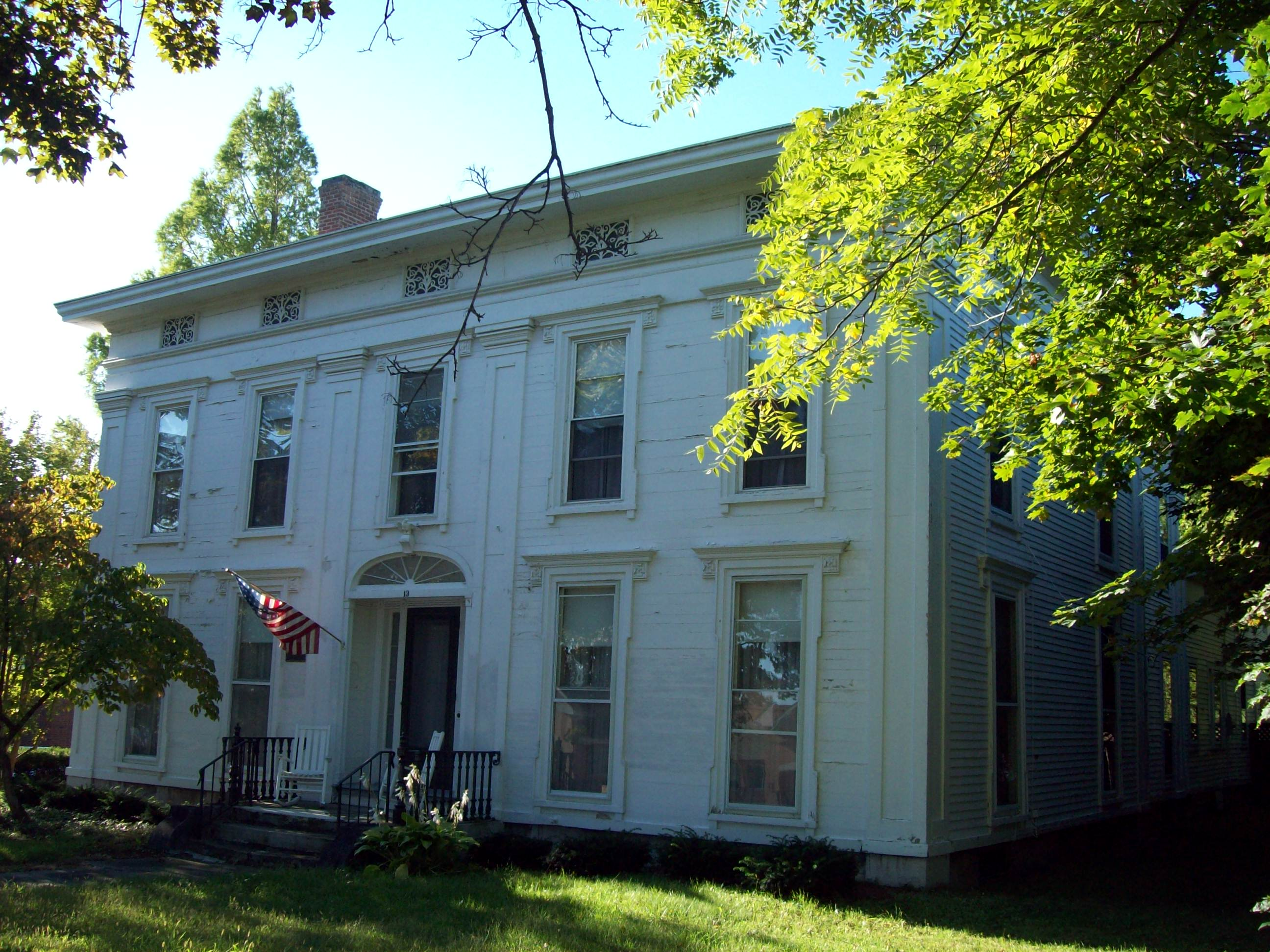 Keeney House, August 2010